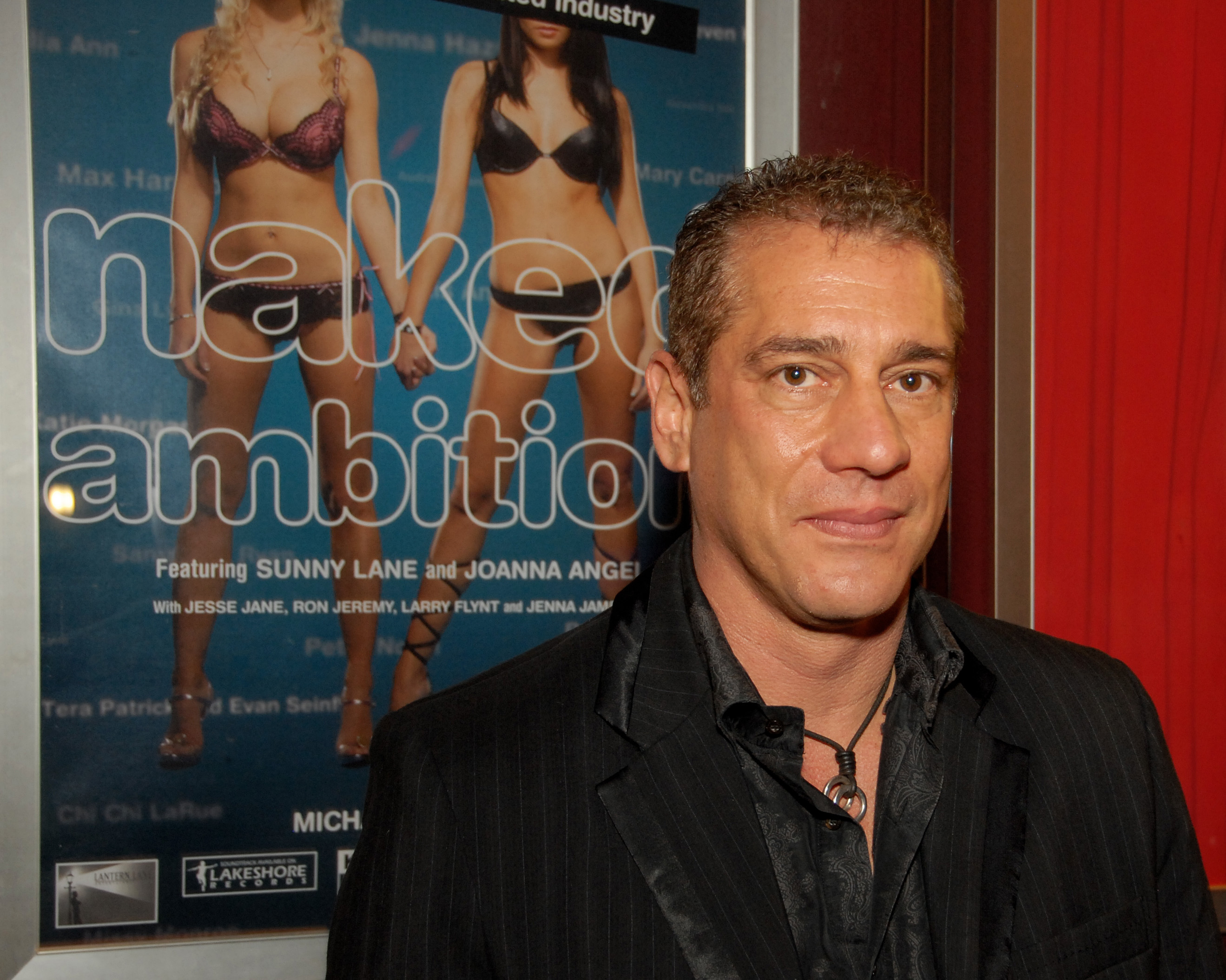 Michael Grecco attending the premiere of his movie: "Naked Ambition" Hollywood, CA on April 30, 2009 - Photo by Glenn Francis of